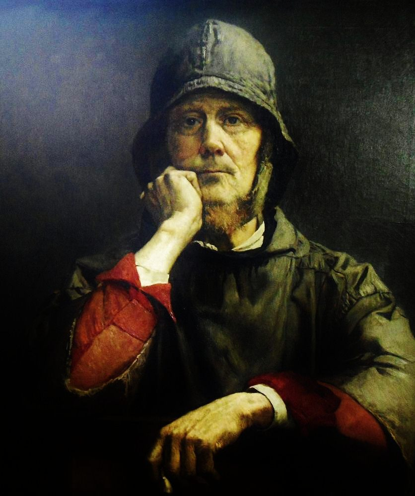 A Fisherman